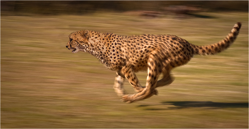 The cheetah (Acinonyx jubatus) accelerate from 0 to over 100 km/h (62 mph) in three seconds.